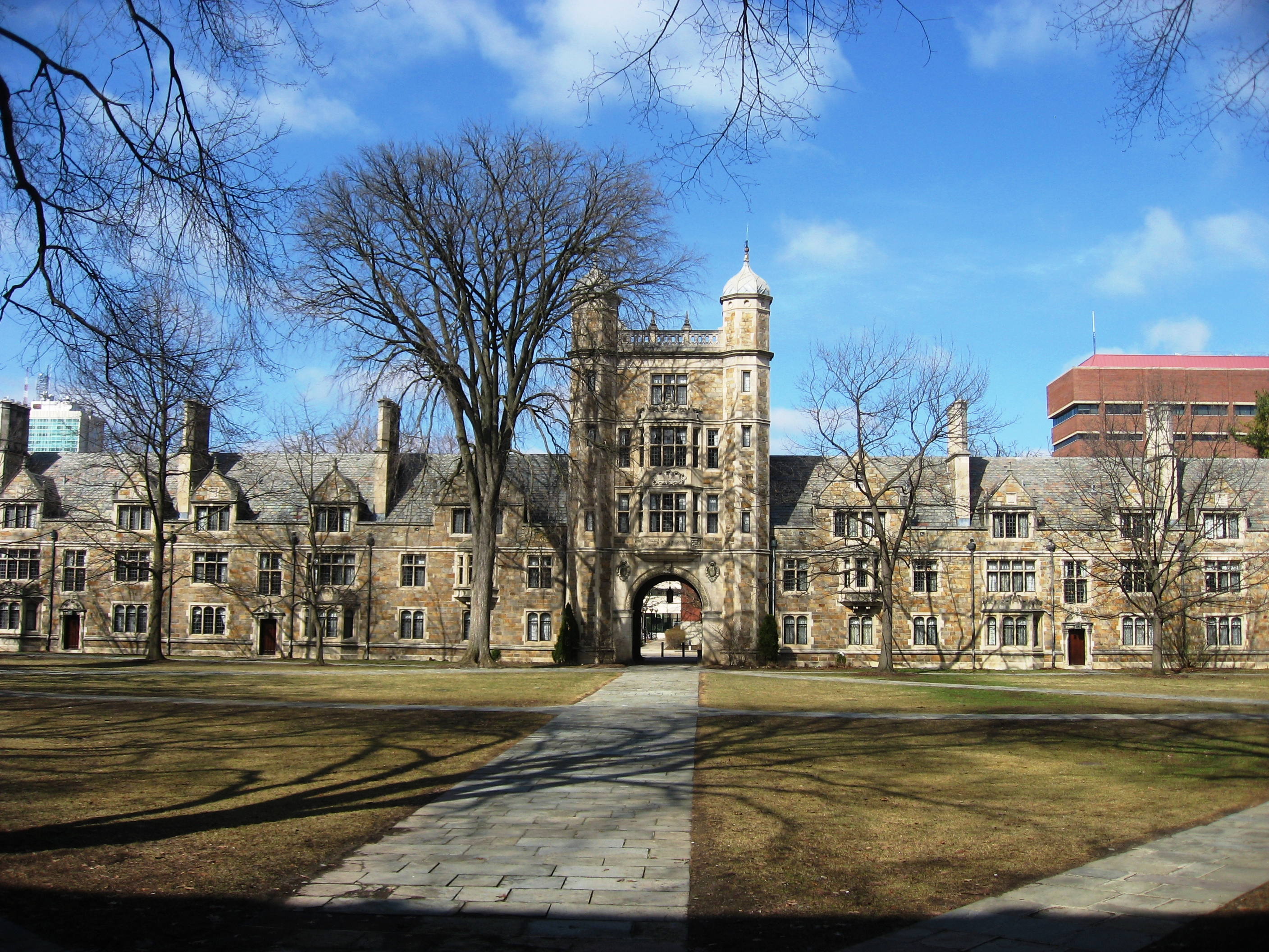 Photo of the Law Quad at the University of Michigan